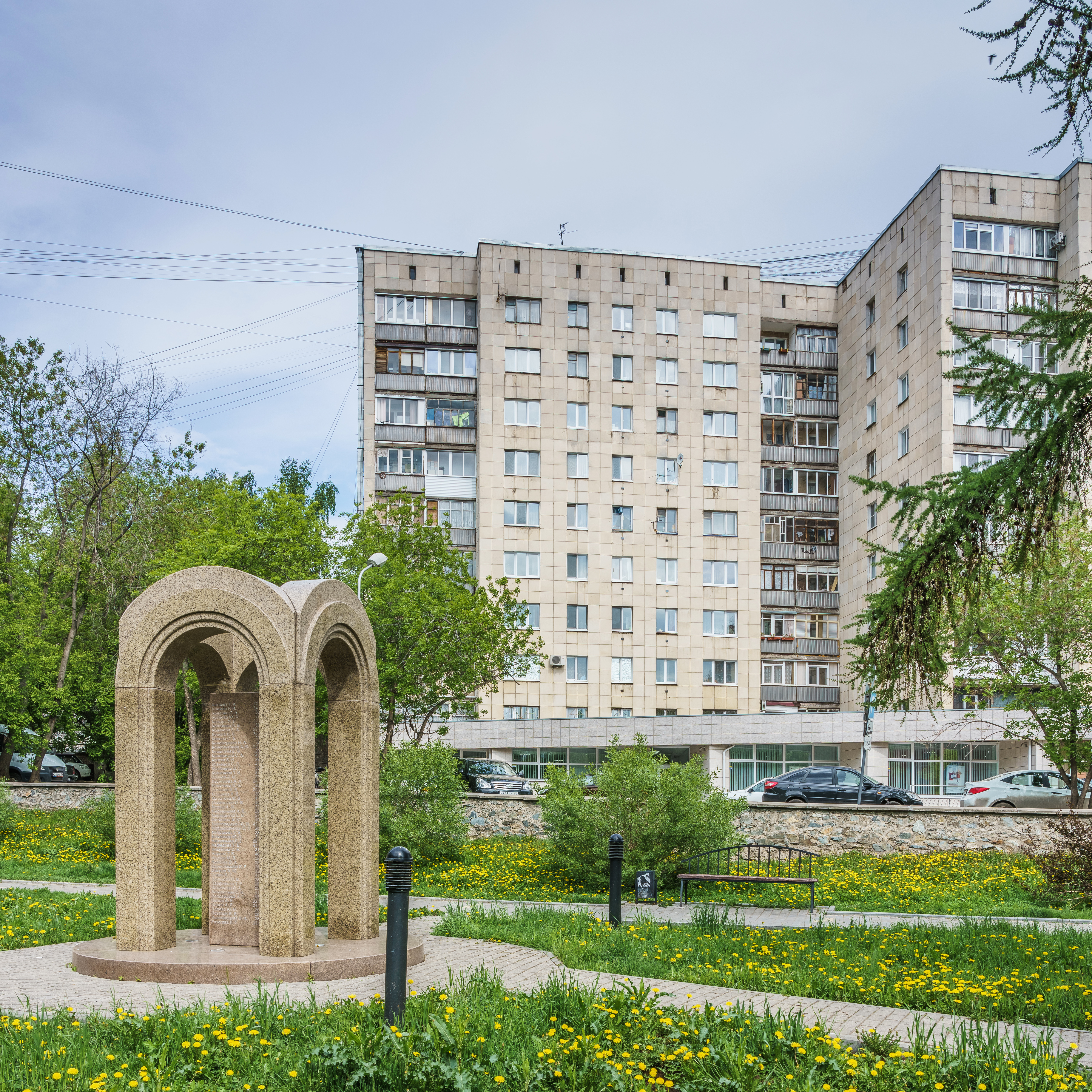 The site of the Lame Horse Club fire in Perm, Russia